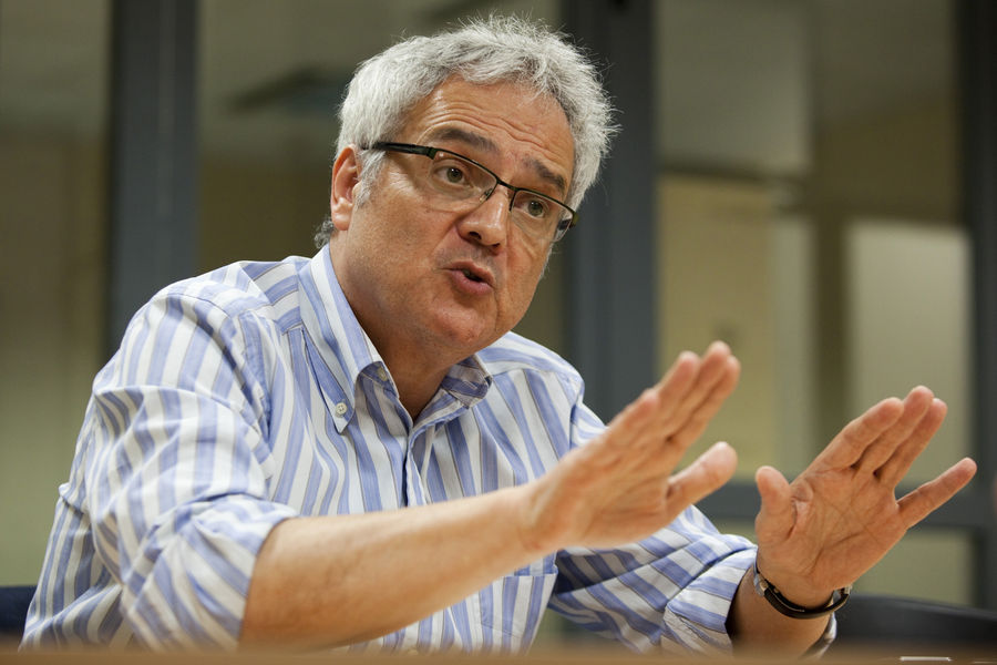 Jaume Barberà i Ribas (Mollet del Vallès, Catalonia, Spain, 1955) is a Catalan director and TV presenter.